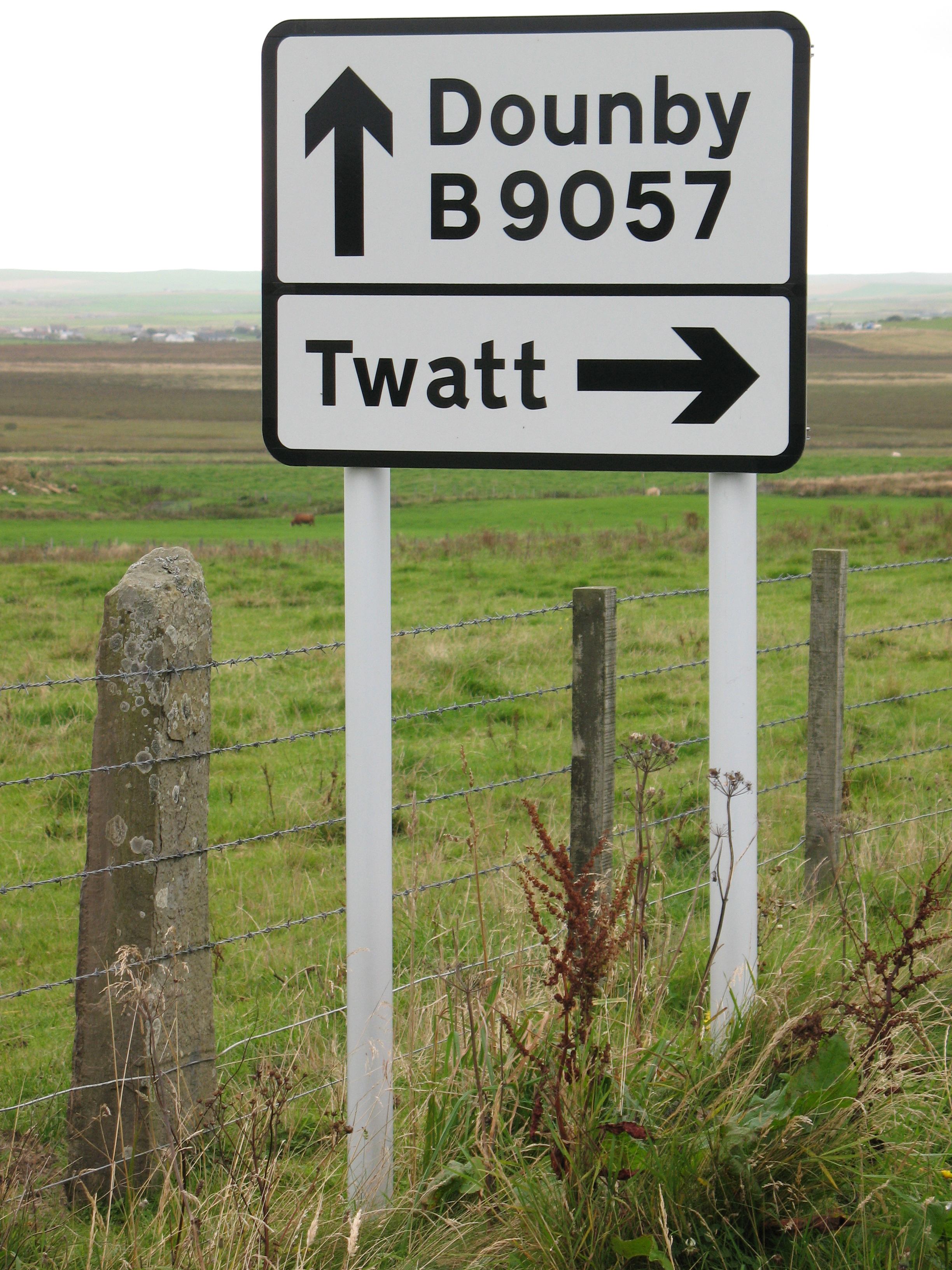 Road sign on B9057 towards the town of Twatt, Orkney